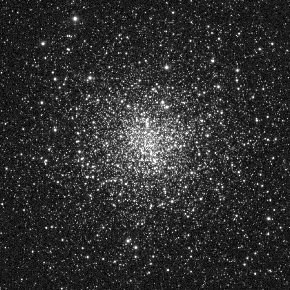 Globular Star Cluster M4, NGC 6121.